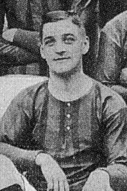 Tommy Atherton at Brentford FC 1903/04.